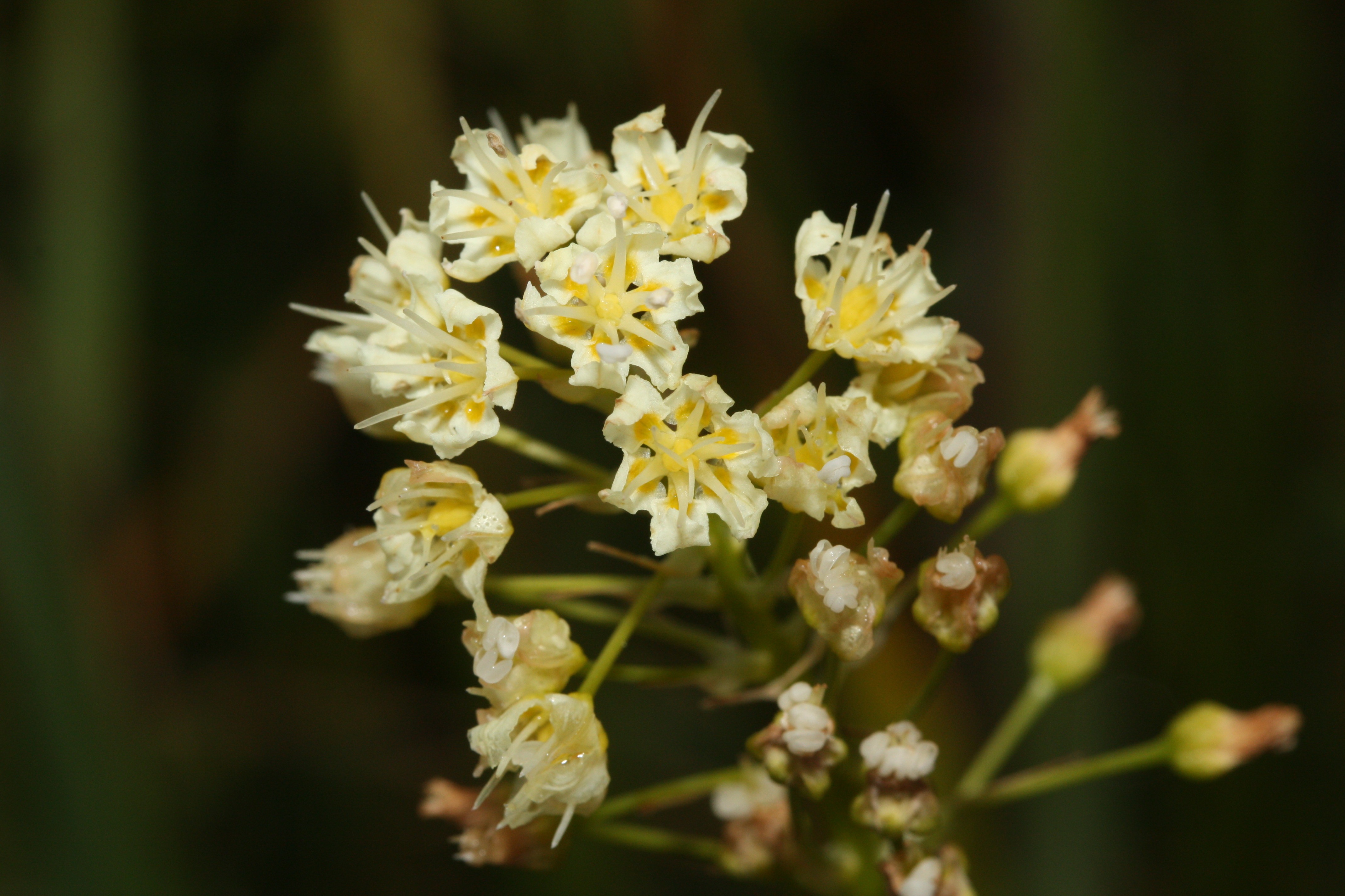 Deadly Zigadenus, Meadow Death-camas